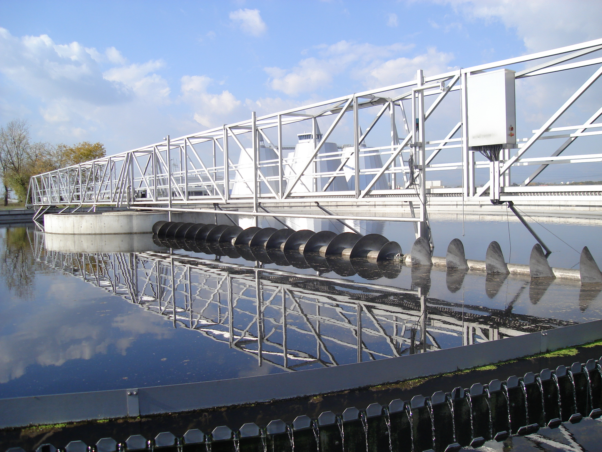 Biological Wastewater Treatment.